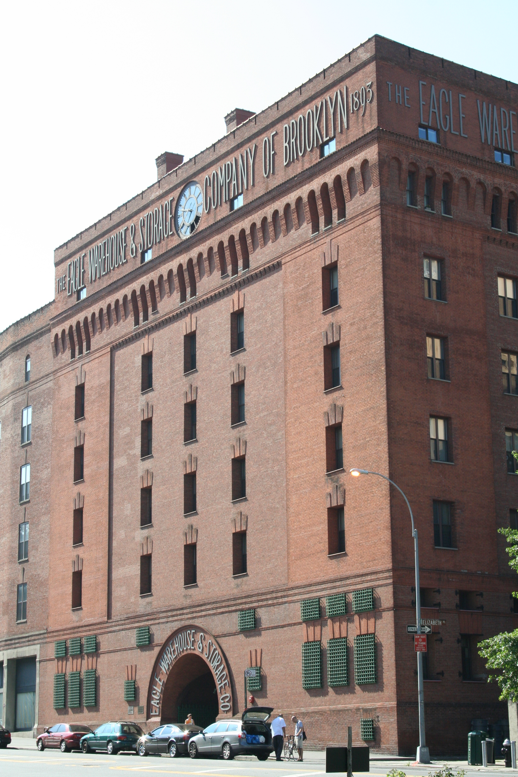 Eagle Warehouse in Brooklyn, New York. Designed by Frank Freeman and built in 1894.